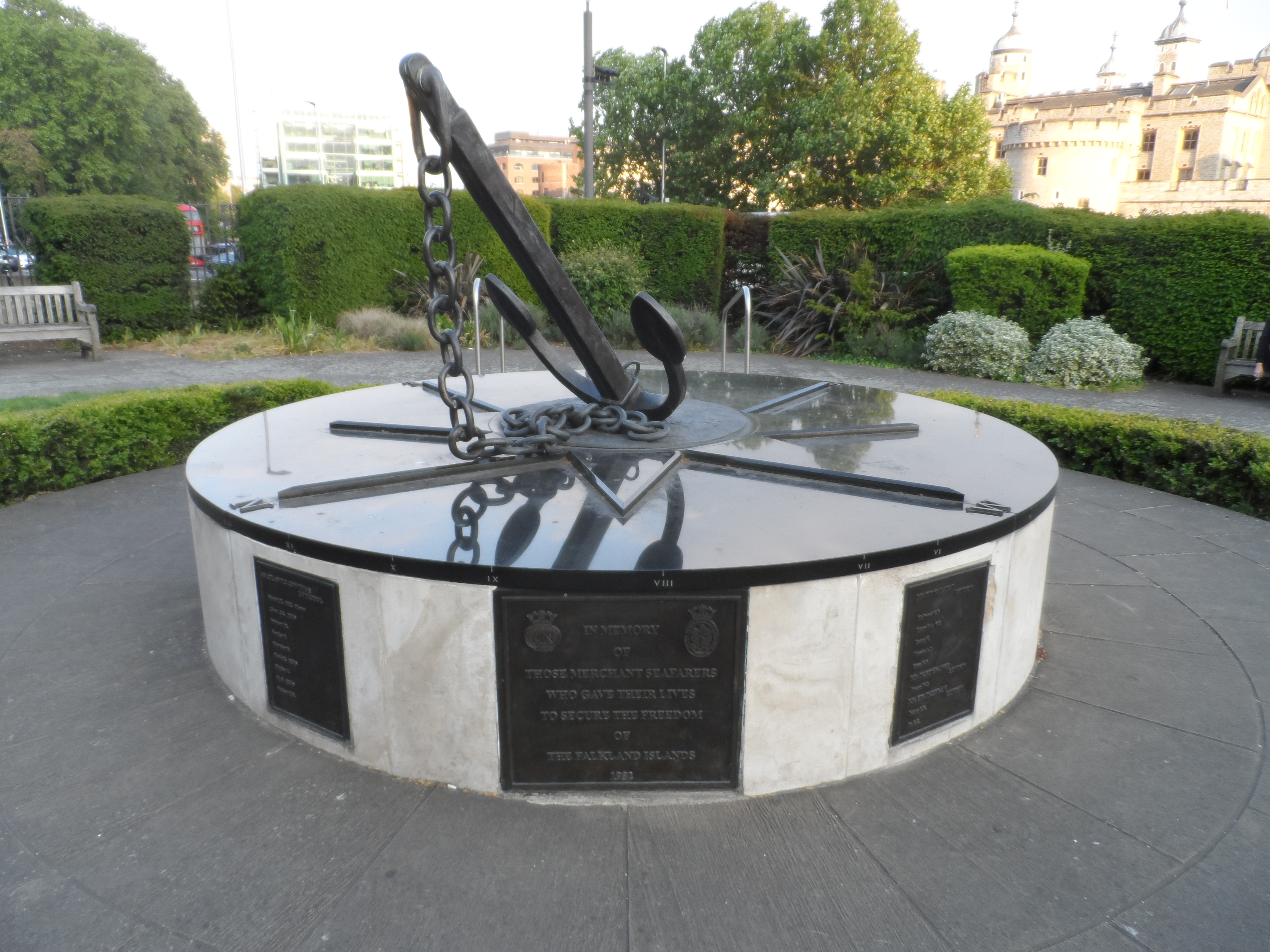 Falklands War Merchant Navy memorial in Trinity Square Gardens, Tower Hill, London, UK. This view looks south-east.